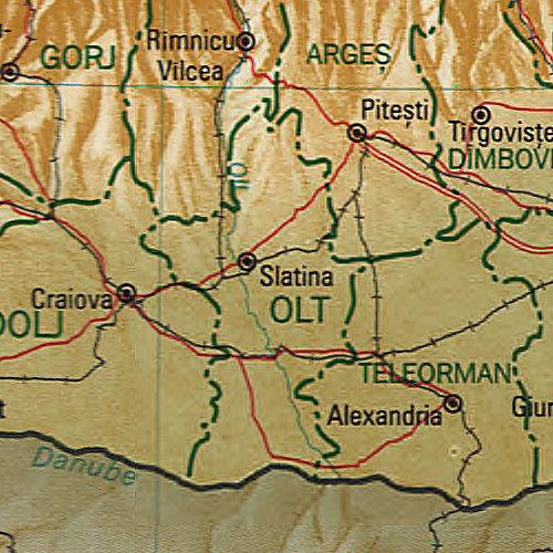 Map of Olt County, Romania.